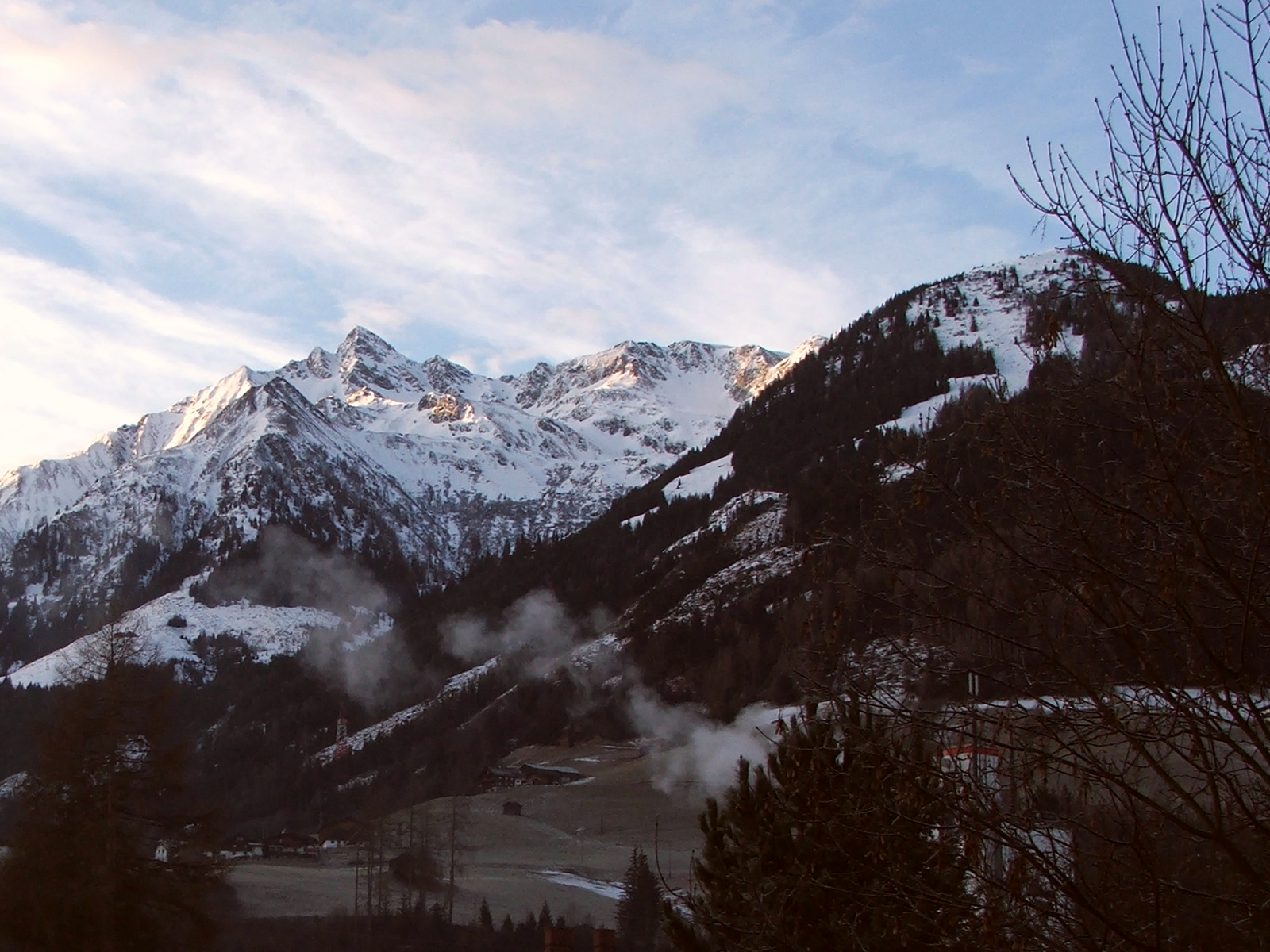 View from downtown Mittersill towards Pihapper and Platte